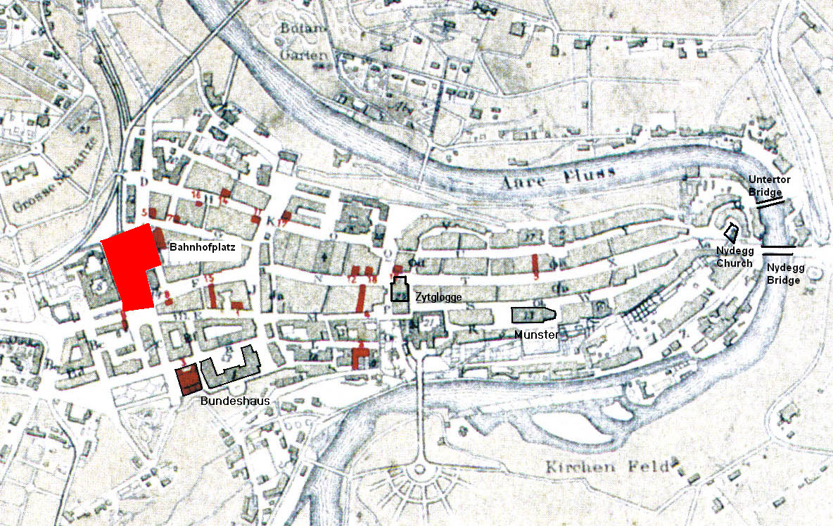 City plan of Bern, 1882. Scanned from BERN: Eine Stadt vor 100 Jahren, Bilder und Berichte; Peter Lauenberger, Emil Erne; München 1997; p. 7. Originally from Bern und seine Umgebungen, C.H. Mann, 1882 in the Alpines Museum of Bern. Due to the age of the image, it must be assumed that the author has been dead for more than 70 years. Copyright protection has therefore lapsed under Swiss copyright law (Art. 29 par. 3 URG).